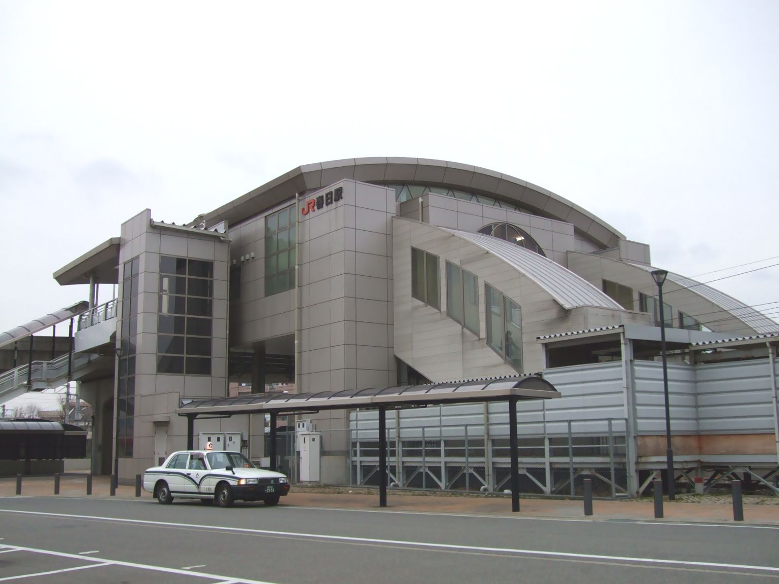 Kyushu Railway Company Kasuga Station